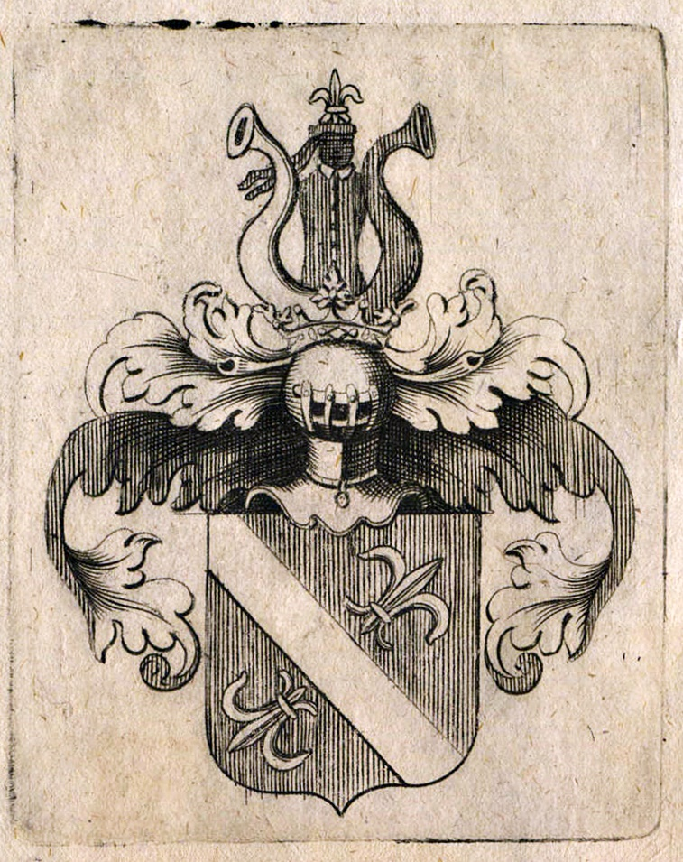 Wappen der pfälzischen Adelsfamilie von der Hauben